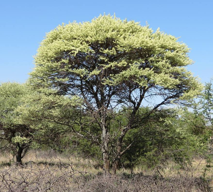 Umbrella thorn in flower on Lekkerbreek farm, Naboomspruit area, Limpopo